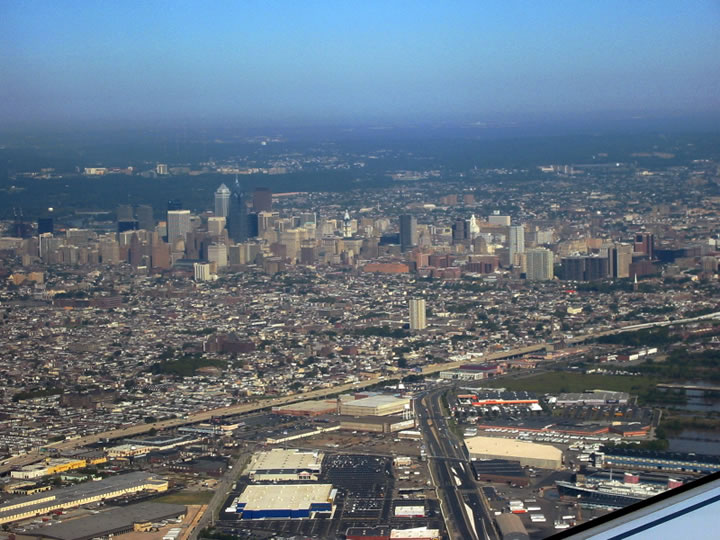 central and southern Philadelphia viewed from the plane. note the Big Blue Swedish Box in foreground